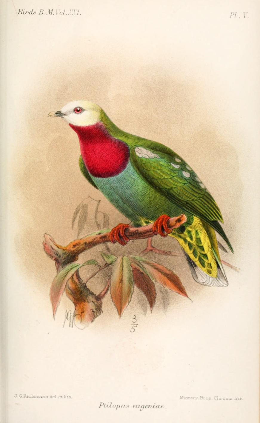 Ptilopus eugeniae = Ptilinopus eugeniae, White-headed Fruit Dove